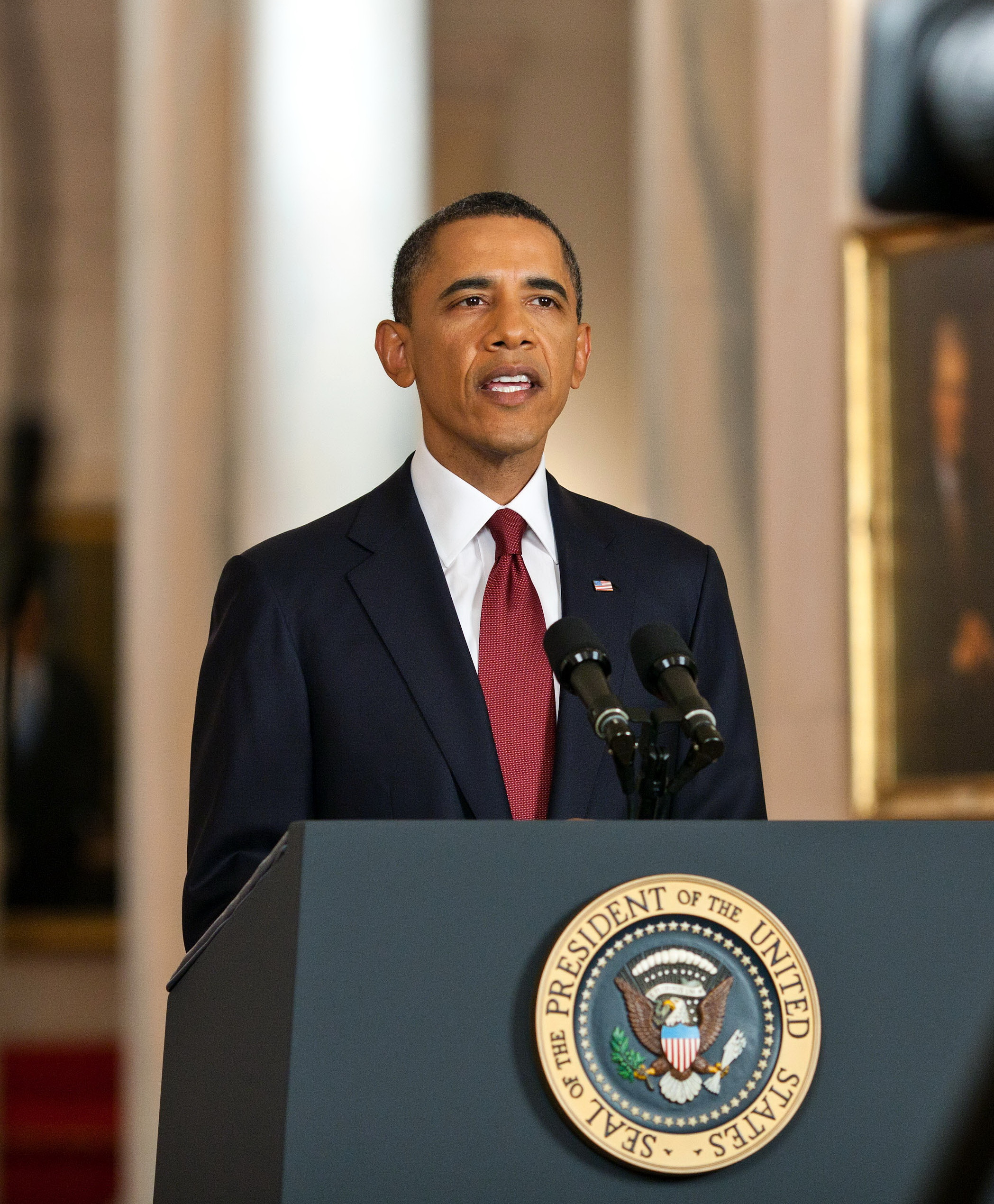 President Barack Obama delivers a statement in the East Room of the White House on the mission against Osama bin Laden, May 1, 2011